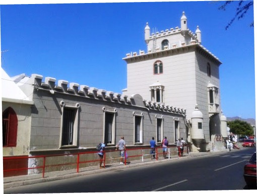 Torre de Belém (of Mindelo)